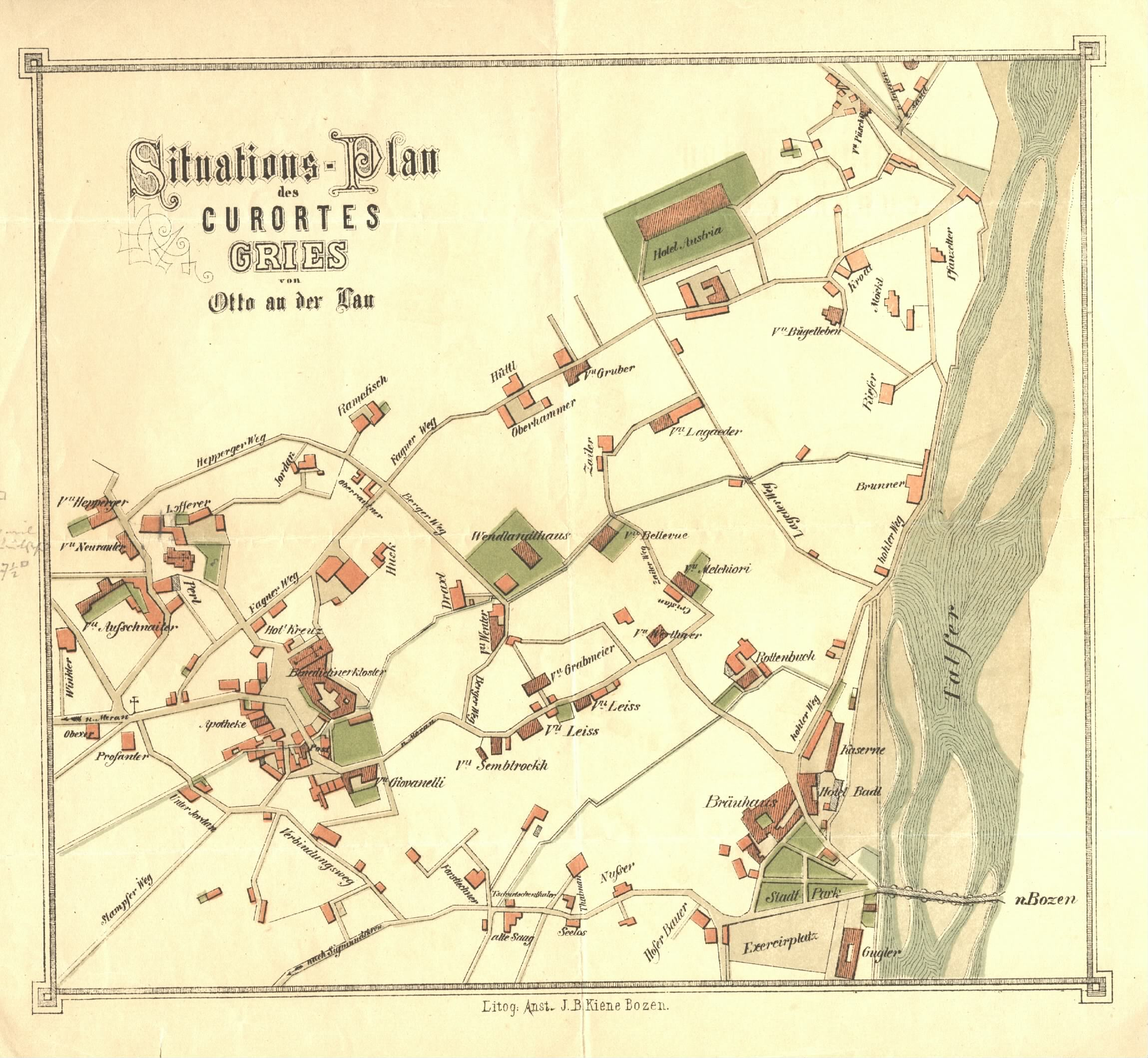 Map of the Spa Gries near Bozen-Bolzano, by Otto an der Lan, 1884